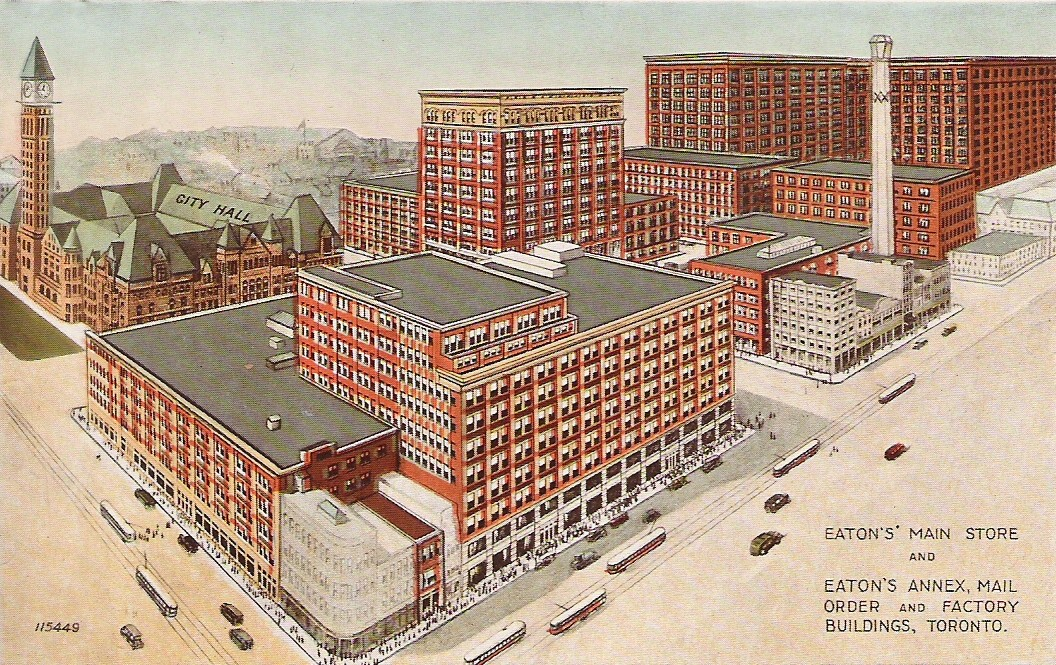 1923 postcard of the Eaton's Main Store, the Eaton's Annex, and the Eaton's mail order, factory and warehouse buildings at the northwest corner of Yonge and Queen Streets in Toronto, Ontario, Canada. Toronto's City Hall (at that time) is visible in the upper left corner. During the 1970s, the Eaton's department store buildings were demolished in order to construct the Toronto Eaton Centre.